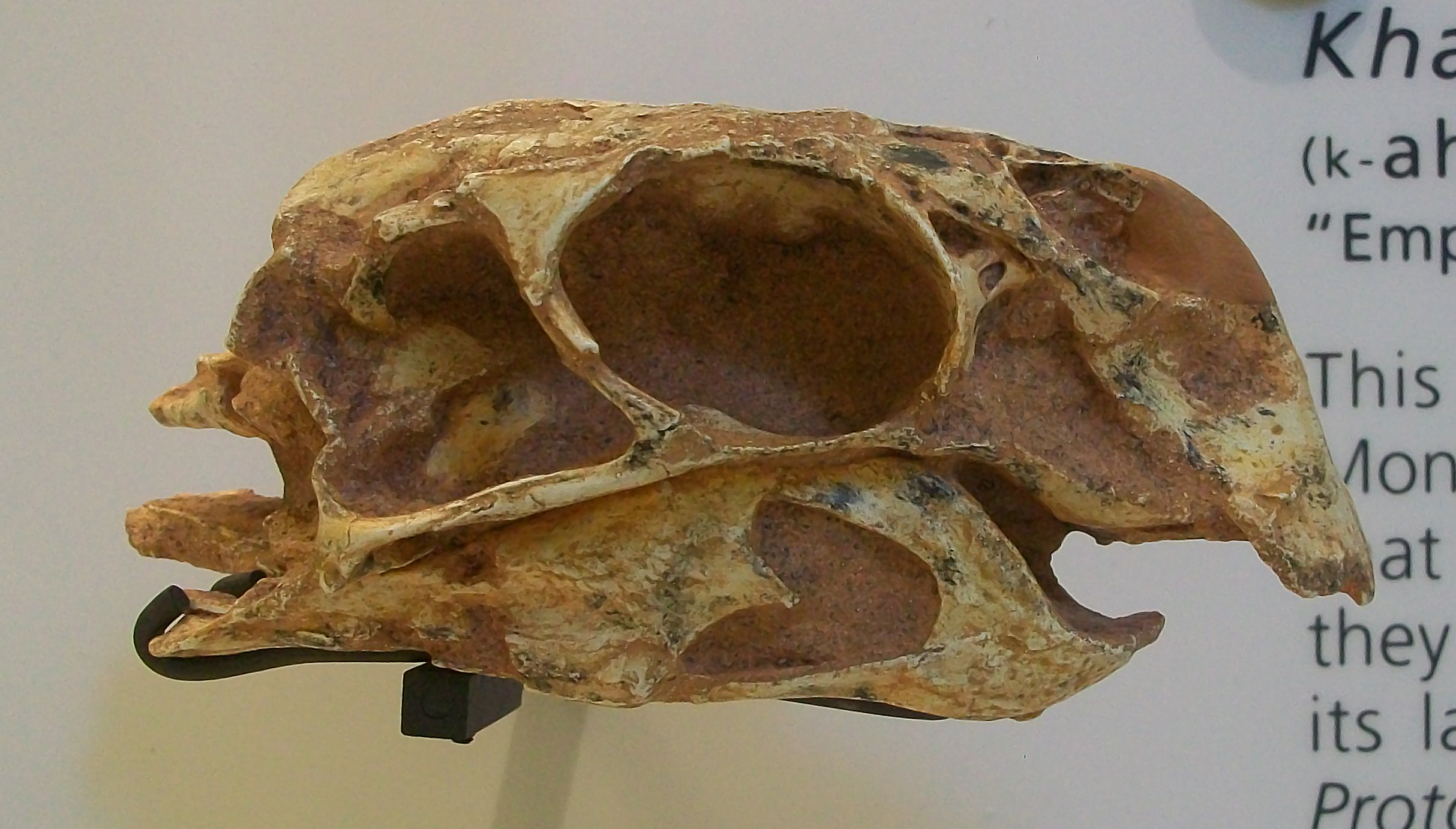 Cast of the skull of Khaan mckennai (specimen AMNH 29051) in the American Museum of Natural History.